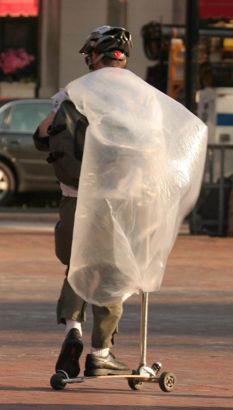 Scooterdude in Copley Square